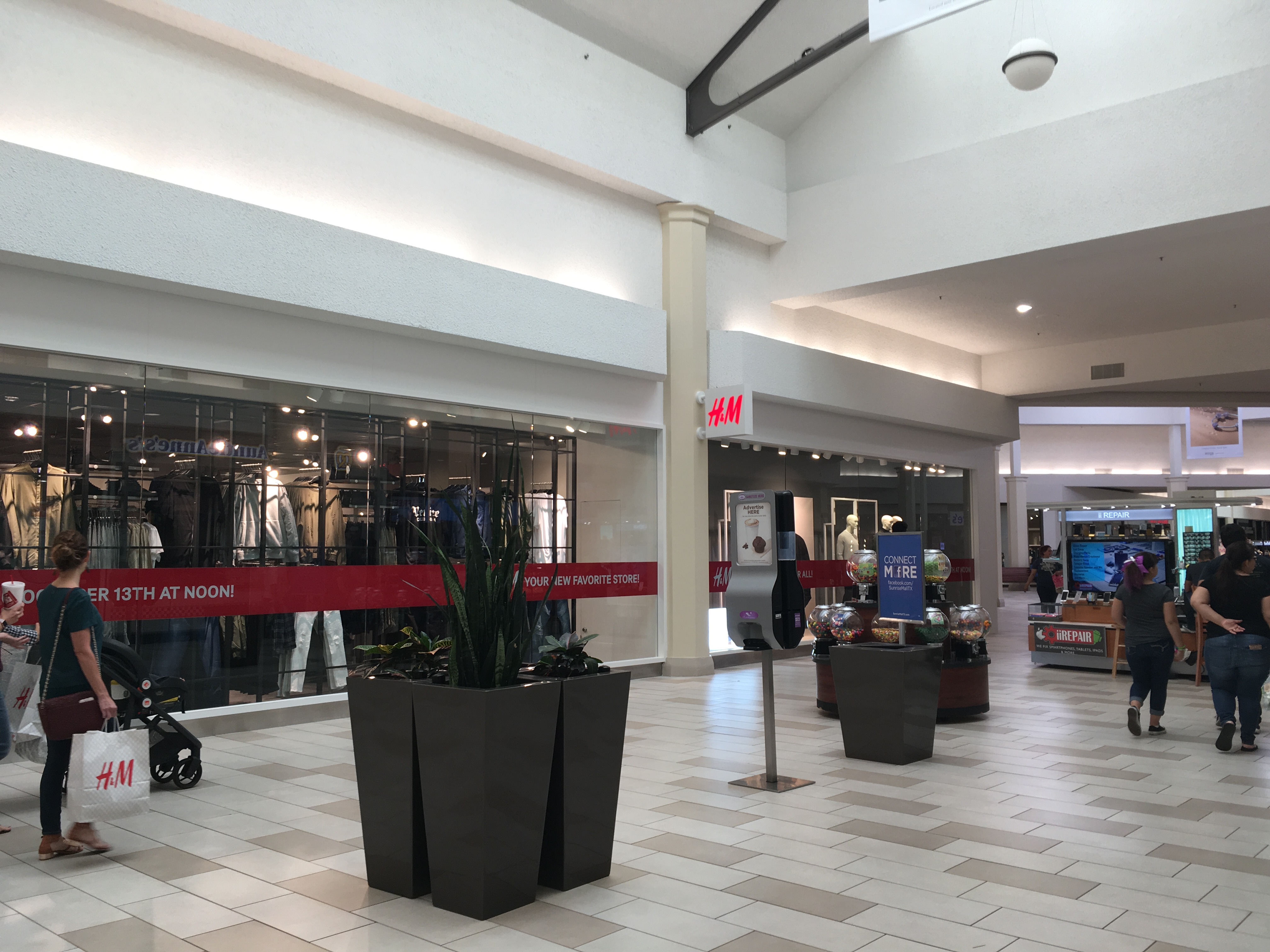 The interior of Sunrise Mall.